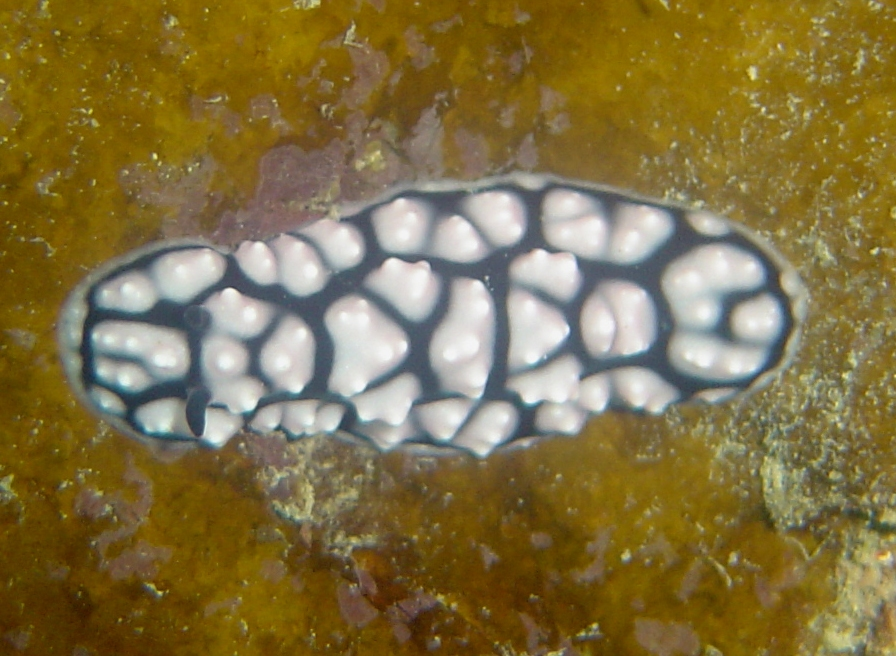 Phyllidiella pustulosa Image ID: reef1111, NOAA's Coral Kingdom Collection Location: Guam, Mariana Islands